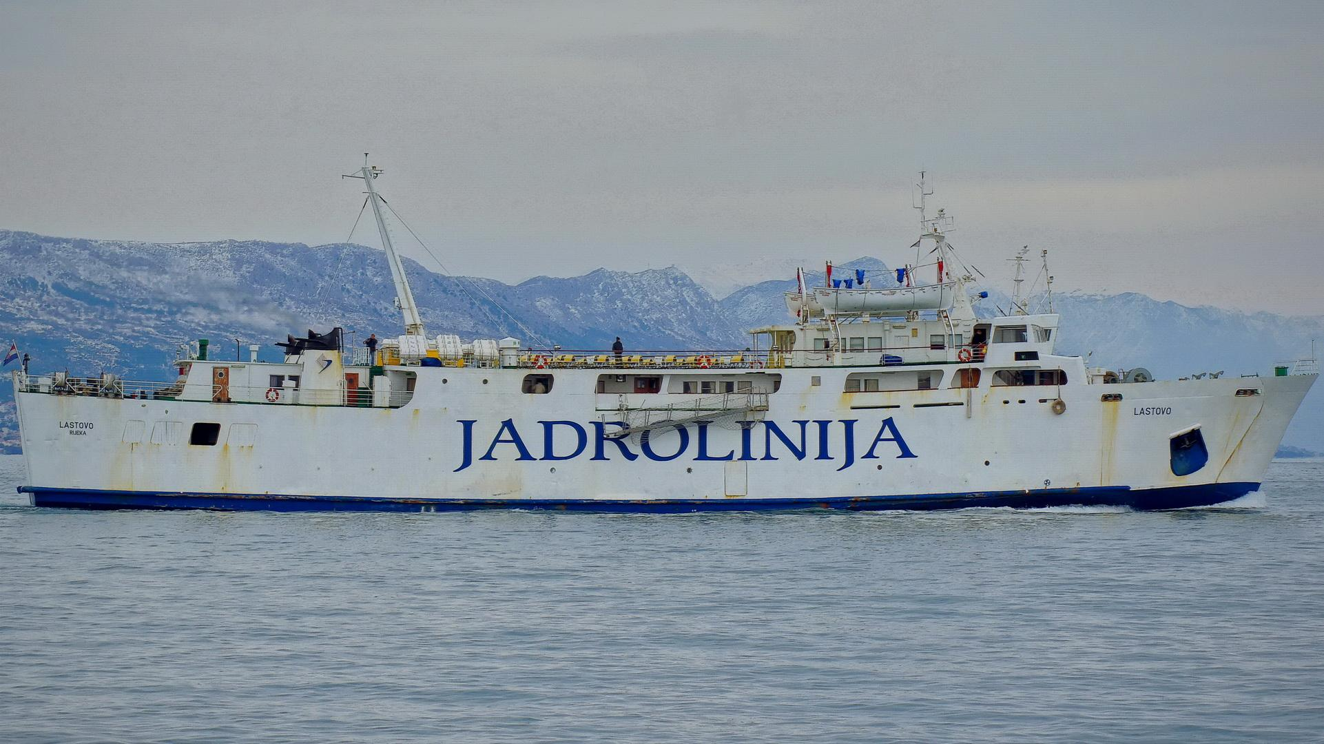 Lastovo (ship, 1970) IMO 7010717, in Split, 2012-02-09, departing off